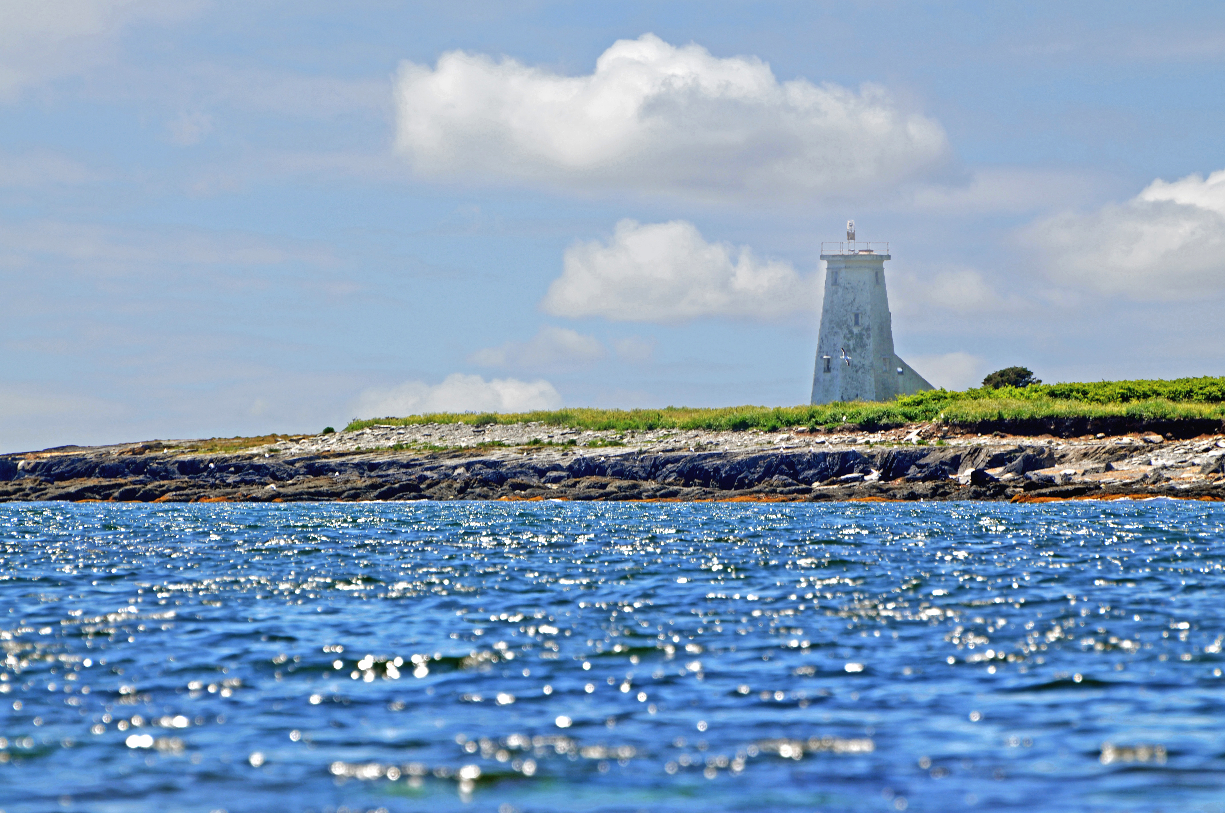 PLEASE, no multi invitations, glitters or self promotion in your comments. My photos are FREE for anyone to use, just give me credit and it would be nice if you let me know, thanks - NONE OF MY PICTURES ARE HDR. The lighthouse was built in 1877 and is on the southeast end of Devils Island, at the mouth of Eastern Passage in Halifax Harbour. It is a tapered white octagonal wooden tower. Tower Height: 11.89m (39ft) Light Height: 15.85 (52ft) above water level Scenic Drive: Halifax / Dartmouth Legend: Devil's Island was originally called Rous' Island, later to Wood Island, and later it was changed again to Deville's Island, which became anglicized to "Devil's Island". Devils Island is the location of a famous local legend. One of the residents of the island had a party with some friends and after some drinking he went outside for a moment and returned very upset, stating he had seen the devil in the form of a halibut that came from the water to speak to him. The next day he was found dead in his boat and some say there were prints of cloven hooves in the sand of the island beach. In the only remaining house on the island some people say they see lights coming from the windows at times.